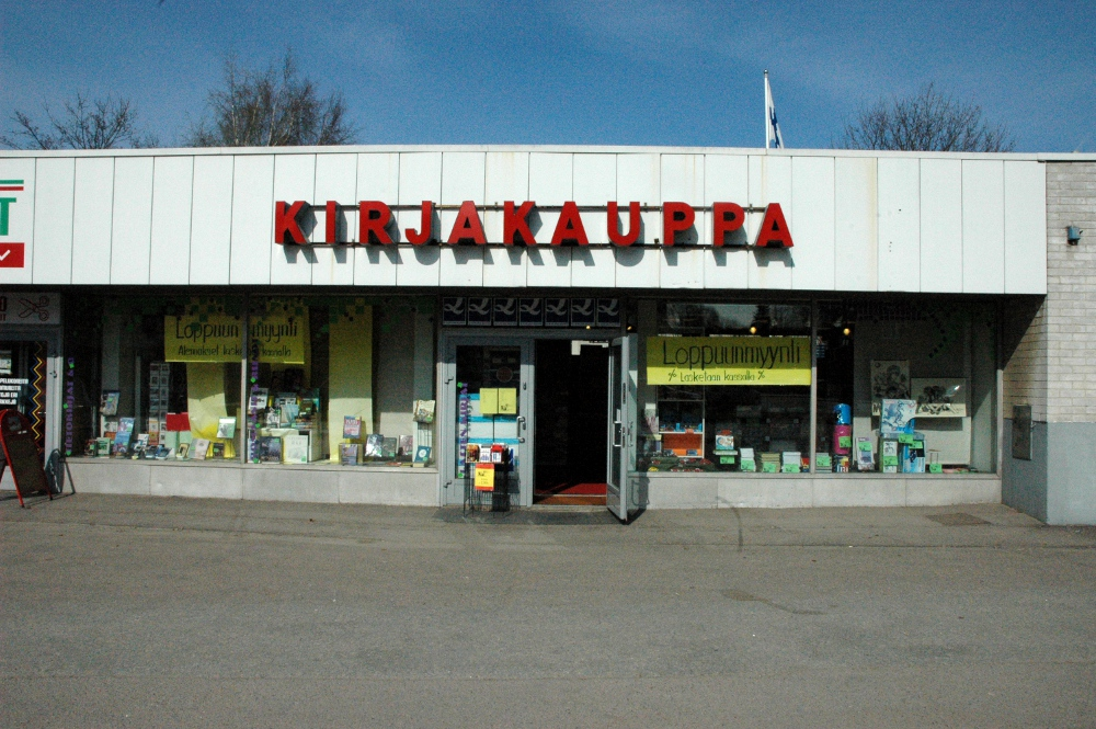 Bookshop in Malmi, Helsinki